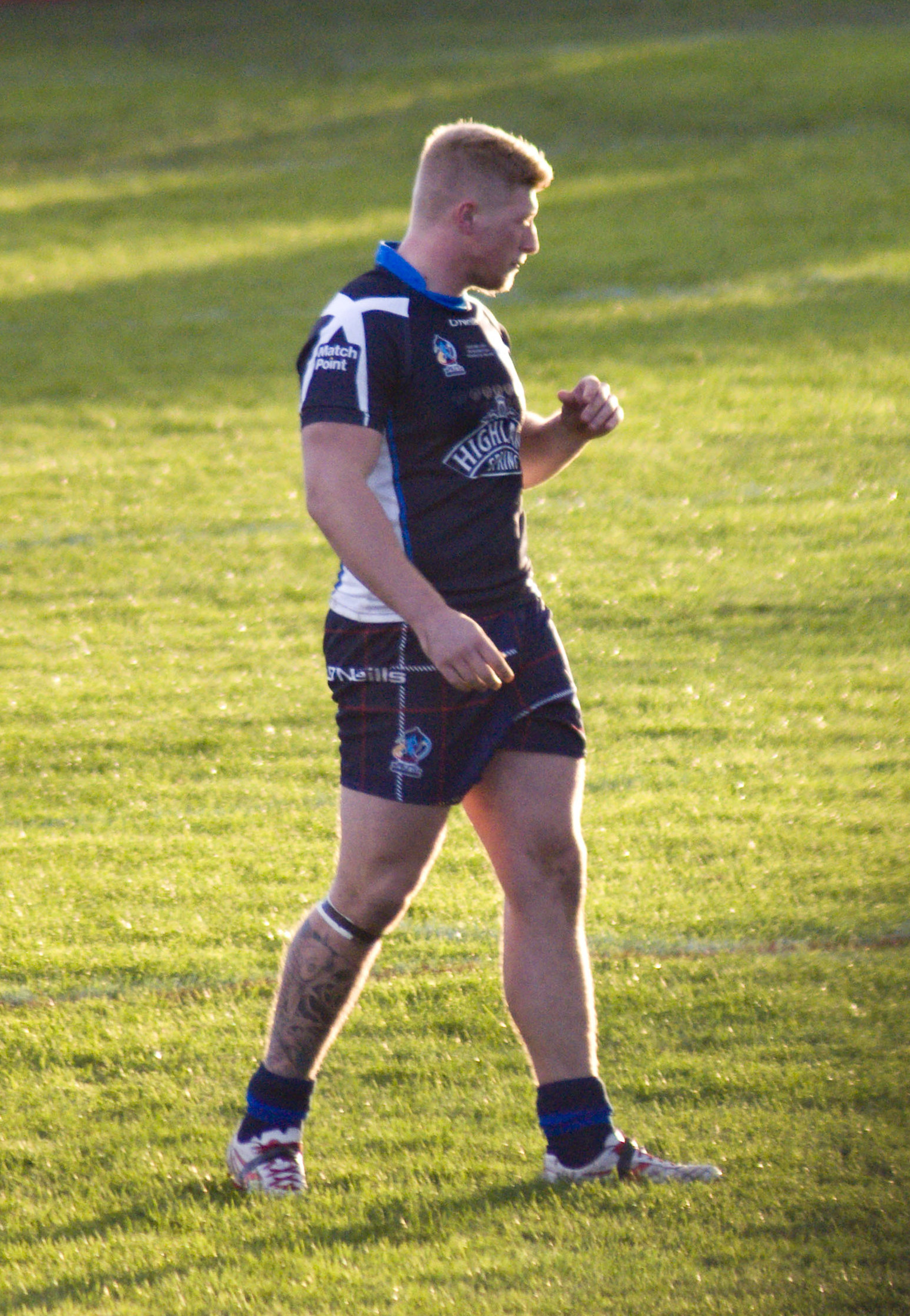 Danny Addy during 2013 Rugby League World Cup match between Scotland and Italy at Derwent Park in Workington.